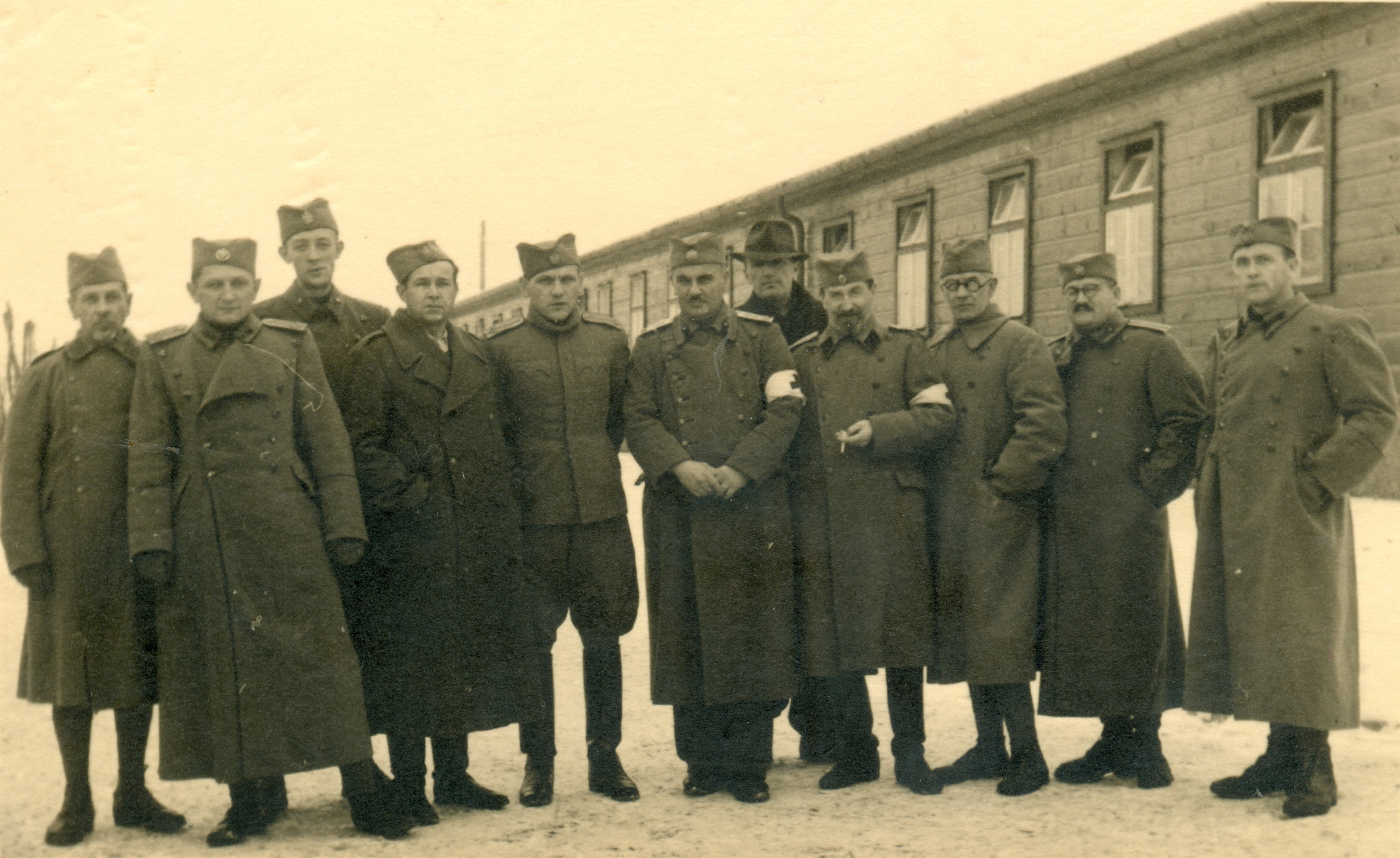 Dr Miodrag Kostić in a prison camp during World War II Srpski (latinica): Dr Miodrag Kostić sa kolegama u logoru za oficire tokom Drugog svetskog rata